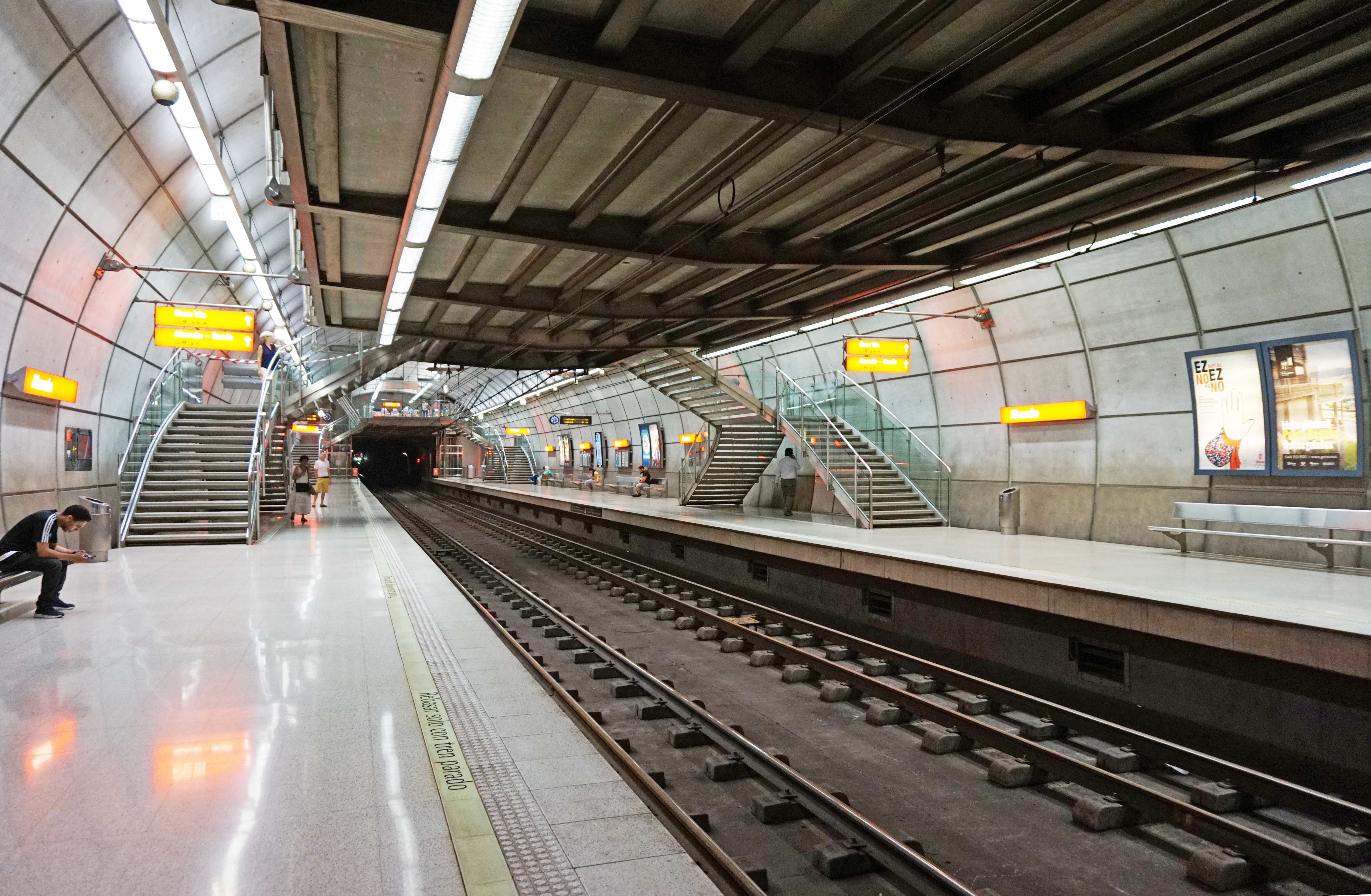 Abando metro station in Bilbao.This photograph was taken with a Sony ILCE-5000